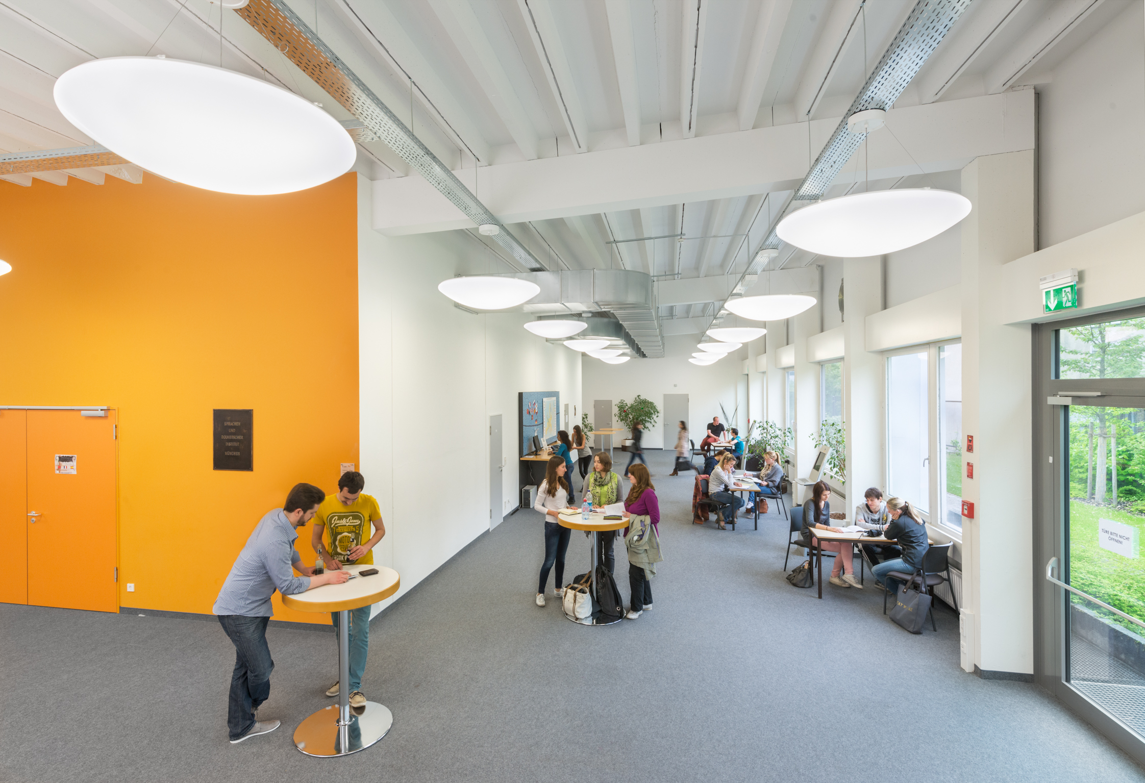 SDI Munich